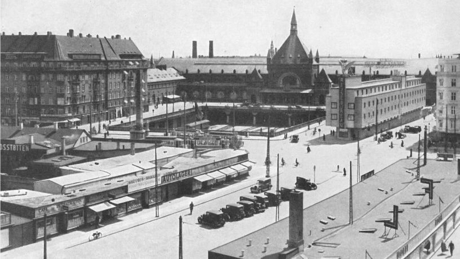 Banegraven in front of Copenhagen Central Station with the Panoptikon Building (left), the new Hotel Astoria (right) and "Penalhuset" (front) in Copenhagen, Denmark